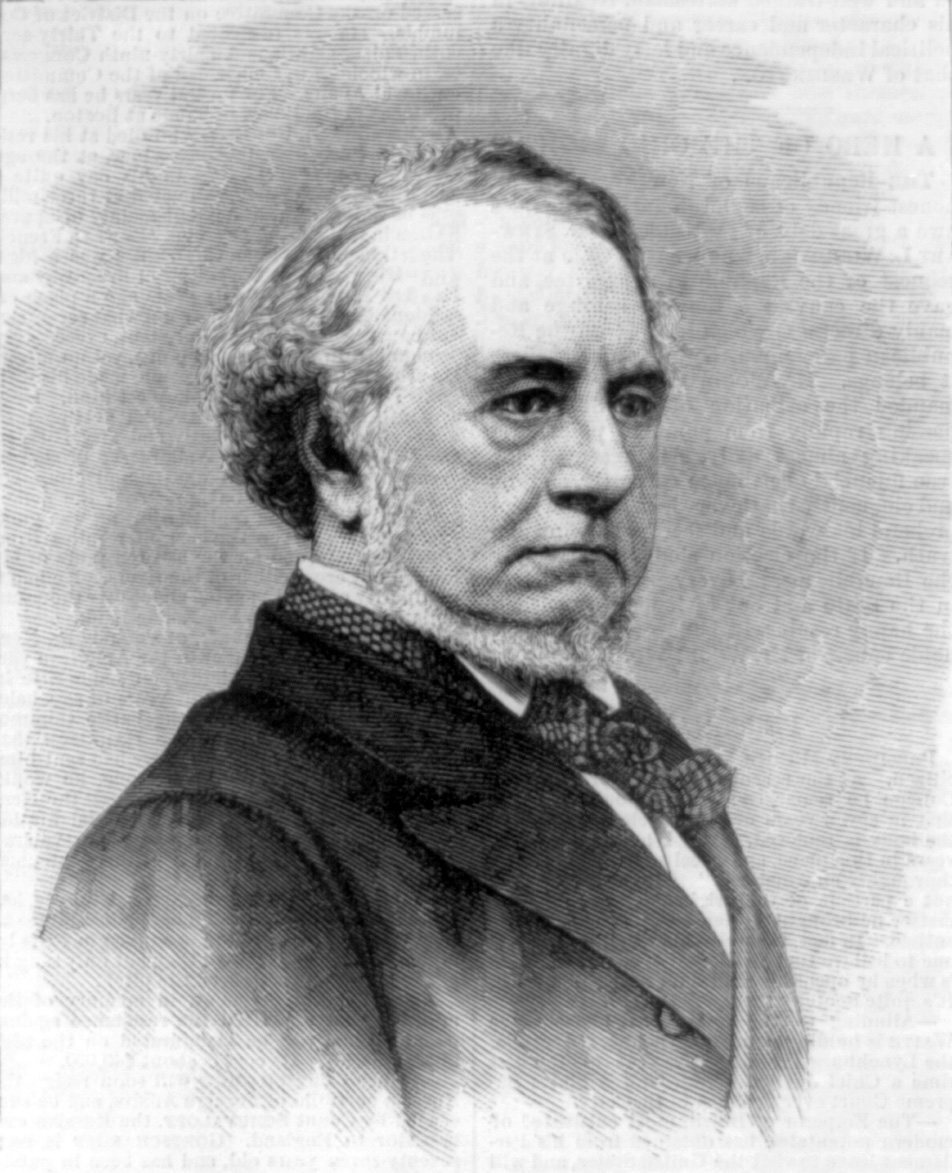 Richard Monckton Milnes, 1st Baron Houghton, English poet. Illus. in: Harper's Weekly, 1875 Oct. 23, p. 856.